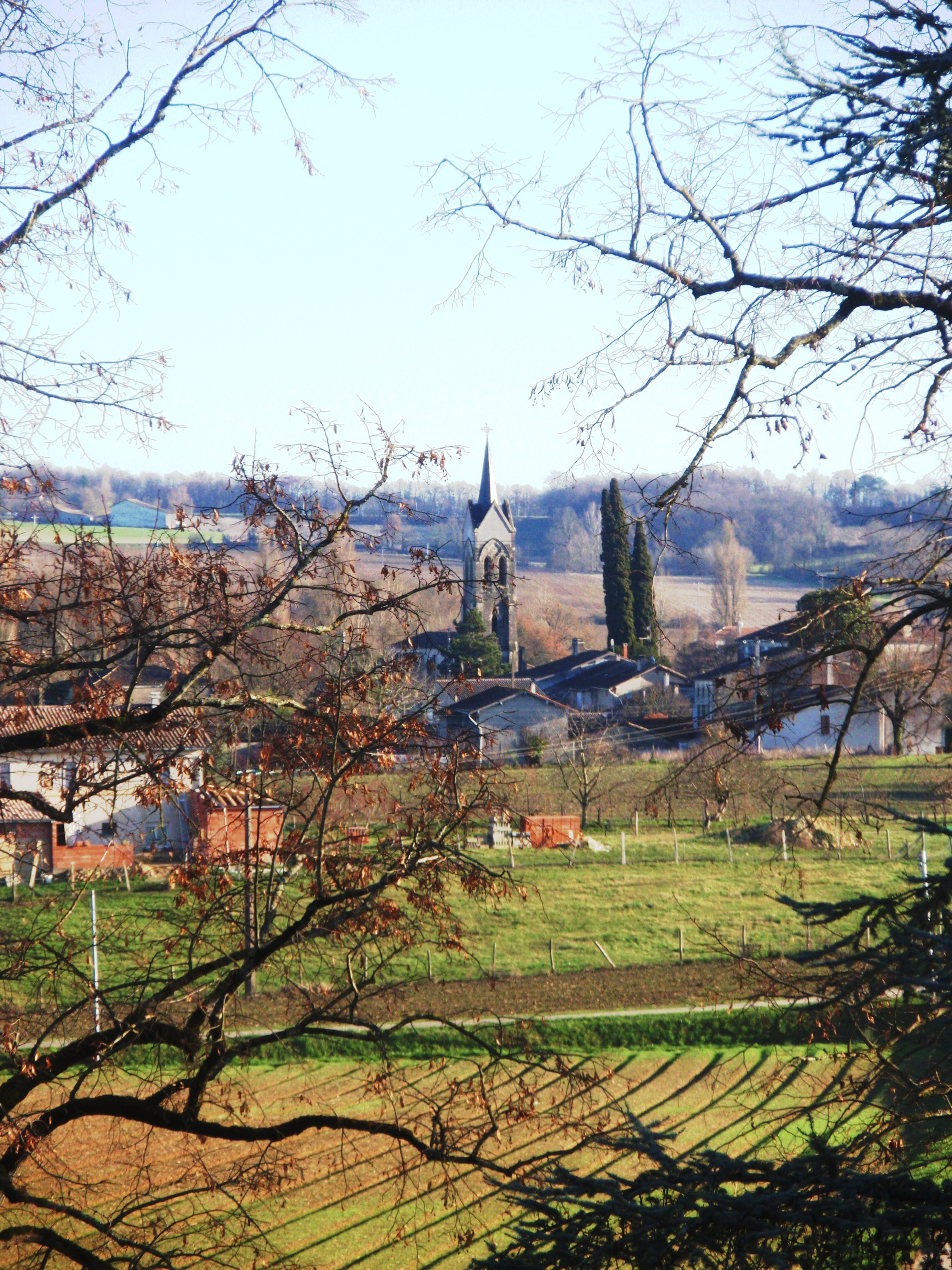 Montignac-de-Lauzun view from west (Lagrange)